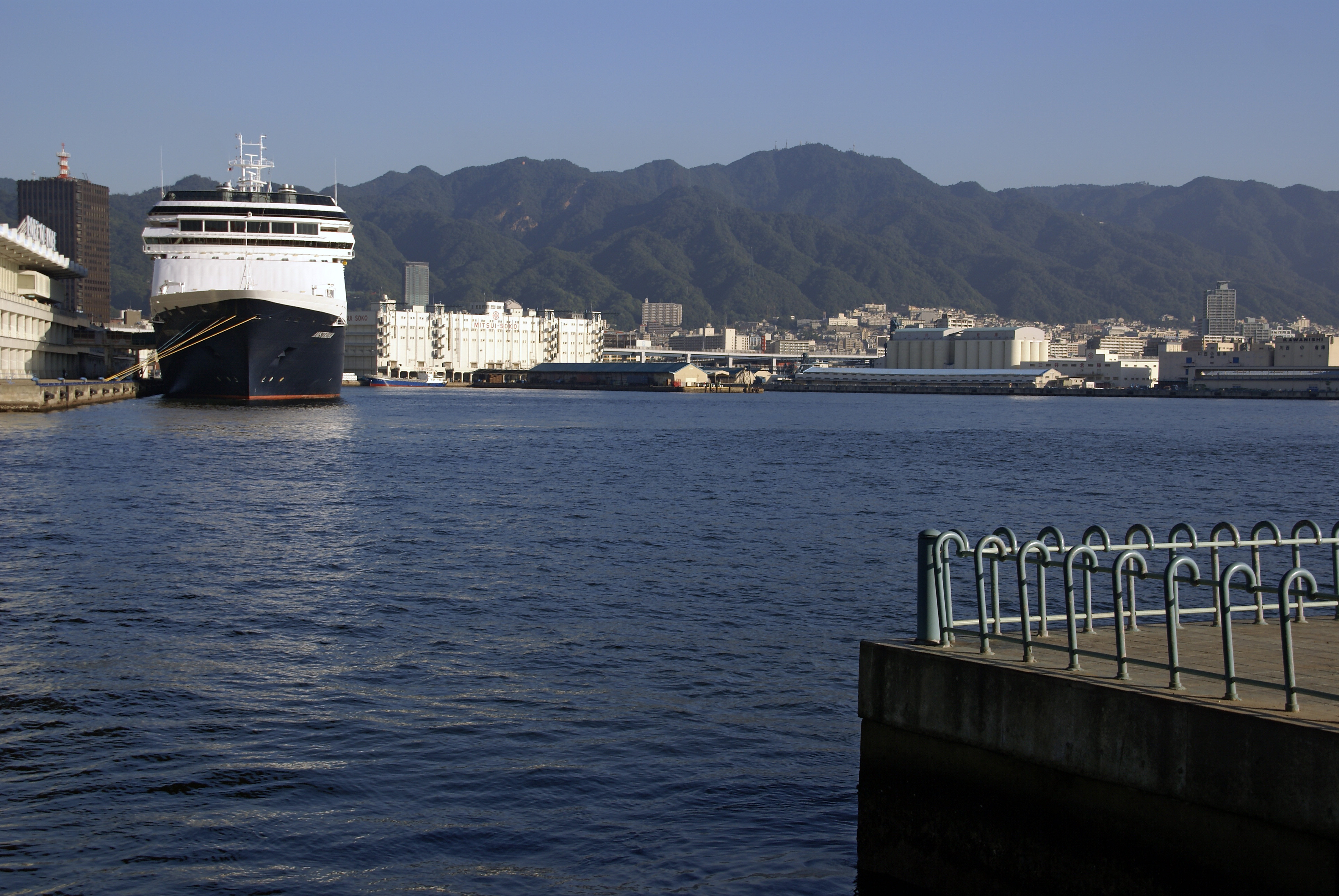 "Amsterdam" at "Kobe Port Terminal" of the Kobe harbor ( Kobe, Hyogo prefecture, Japan)